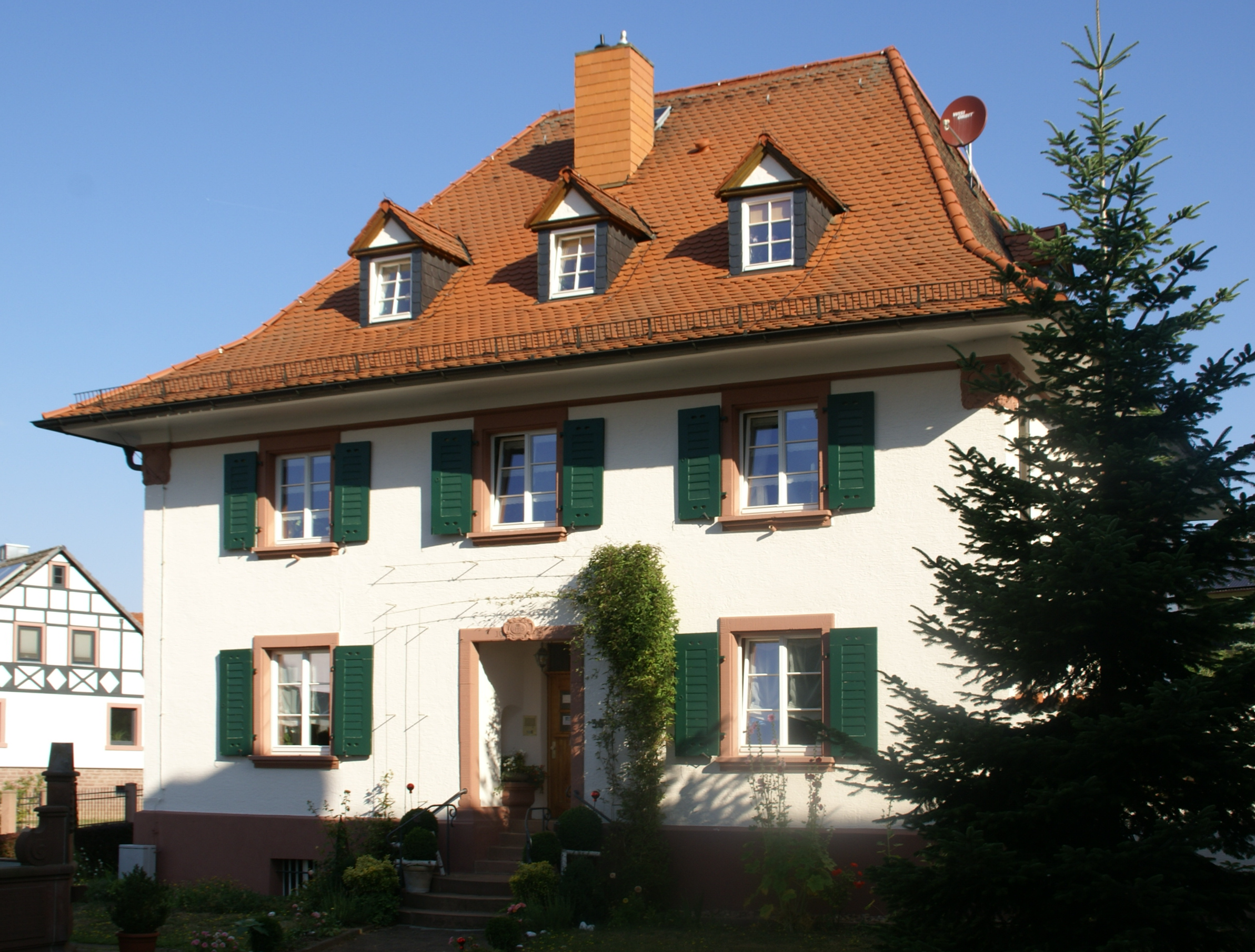 Catholic rectory in Rottenberg, Georg-Blass-Straße 36